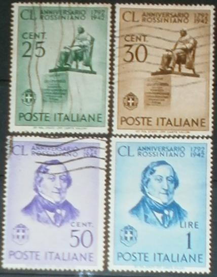 Serie 150 anniversario della nascita di Gioacchino Rossini - francobolli del Regno d'Italia - 1942 - stamps of the Kingdom of Italy with Gioacchino Rossini